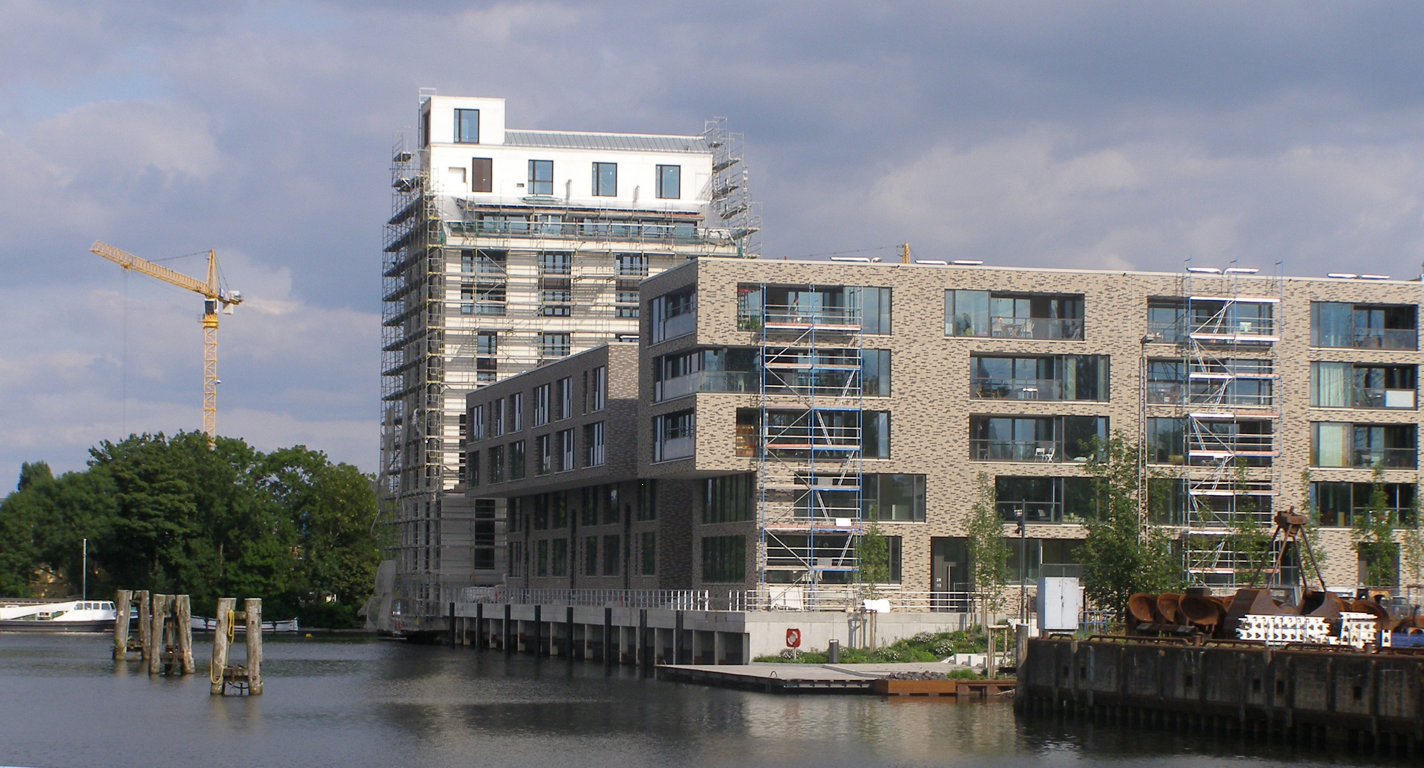 New residential buildings on the Schloßinsel, Harburg, Hamburg, on the Überwinterungshafen